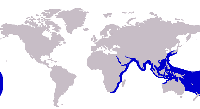 Distribution of longnose trevally, Carangoides chrysophrys using map based on GDFL image